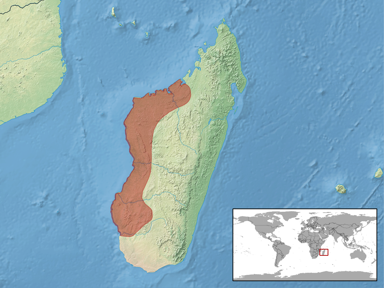 geographic distribution of Brookesia brygooi (Native: Madagascar)